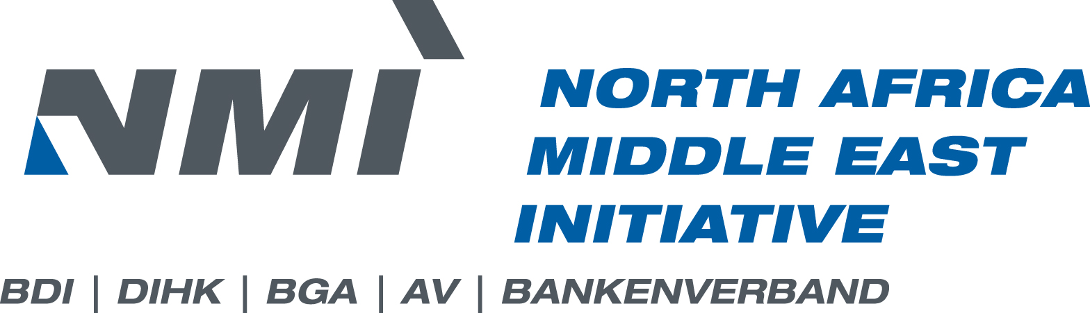 Logo_North Africa Middle East Initiative of German Business